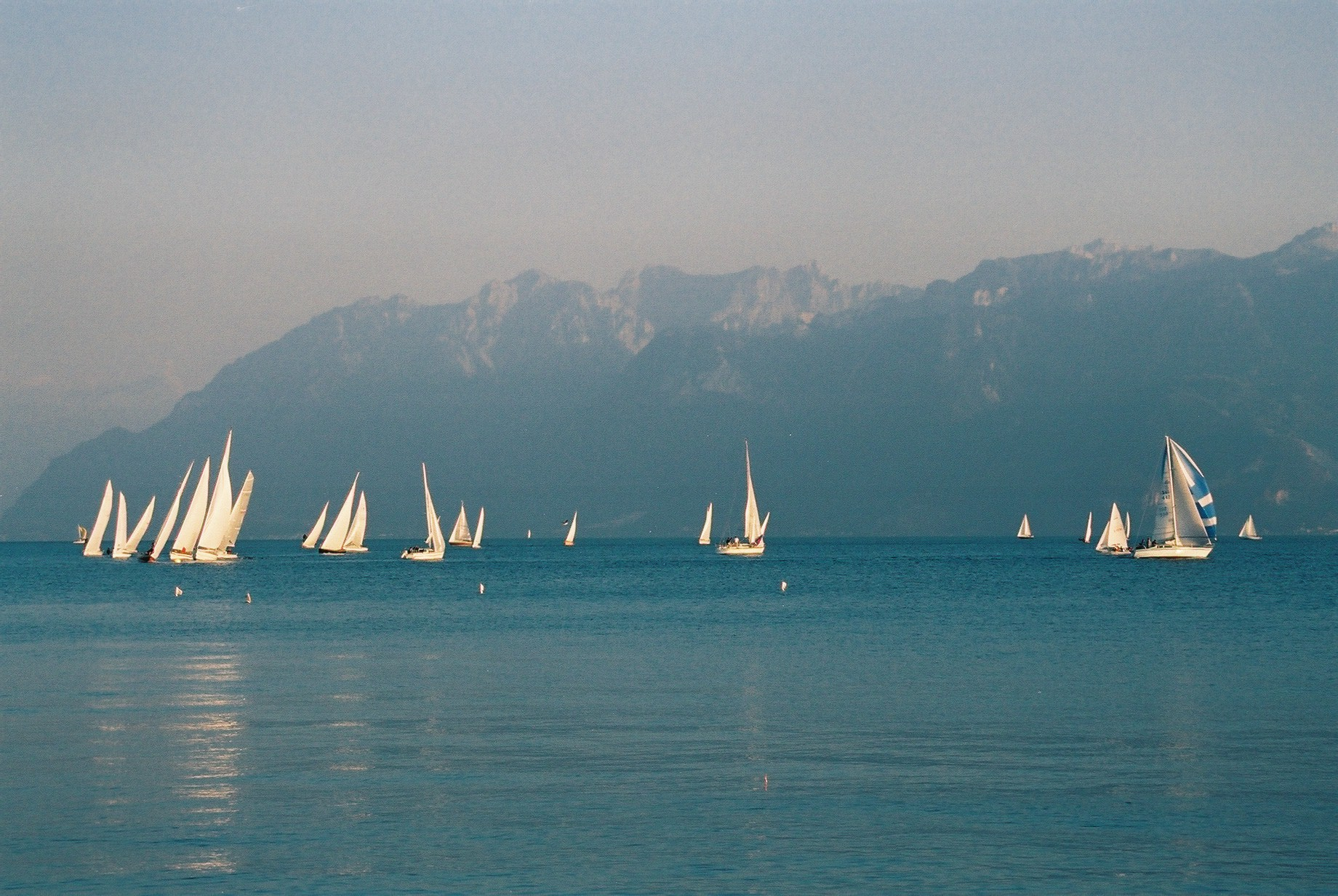 View of Geneva lake from Lausanne